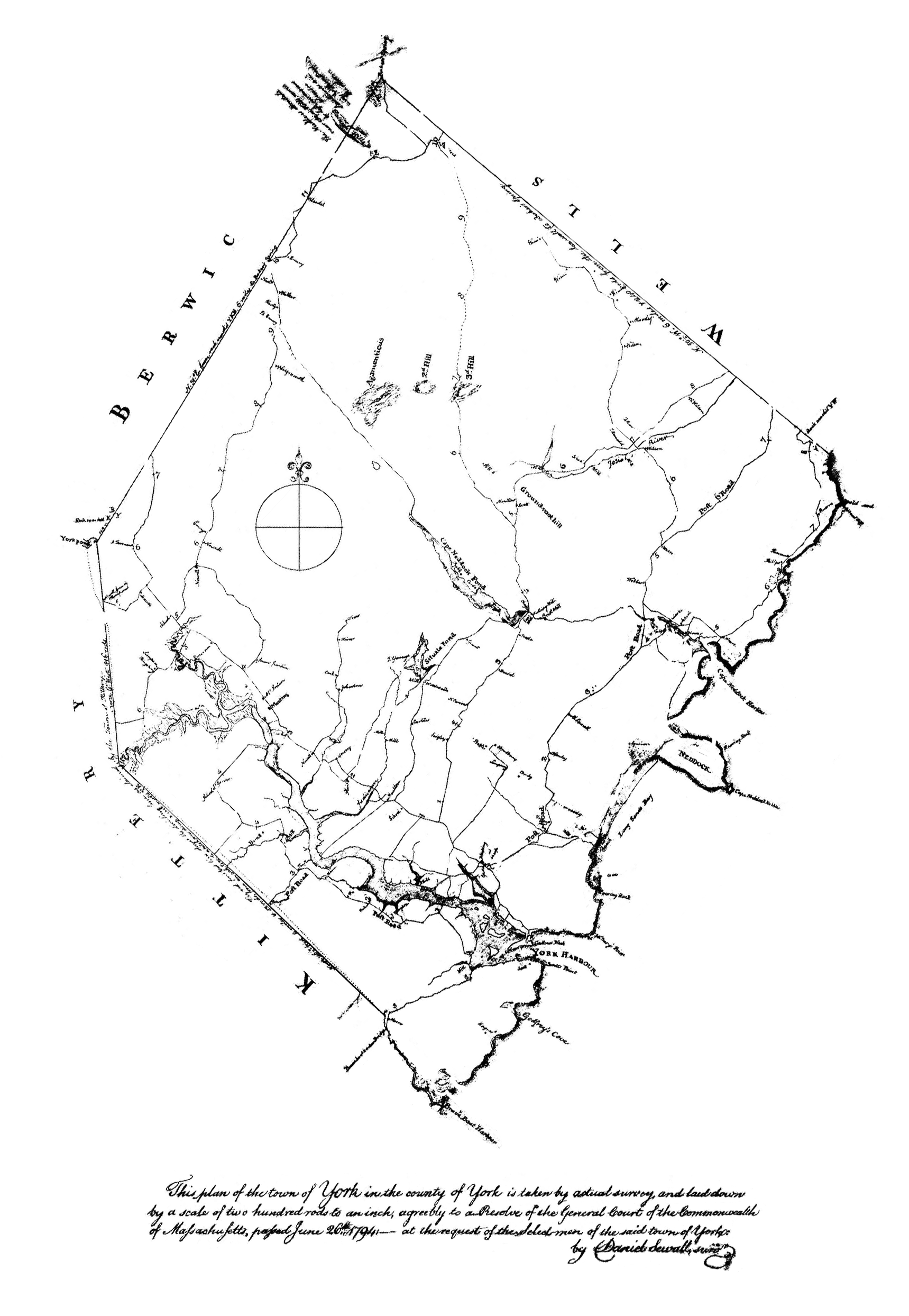 This is a cleaned-up version of the digital image of this map, available to the public through the website of the town offices of York, ME (see source link). I rotated the map from the original to orient it north/south, and moved the legend to what is now the bottom. It reads: "This plan of the town of York in the county of York is taken by actual survey and laid down by a scale of two hundred rods to an inch, agreeably to a Resolve of the General Court of the Commonwealth of Massachusetts, passed June 26th, 1794 - at the request of the Selectmen of the said town of York. by Daniel Sewall, surv."